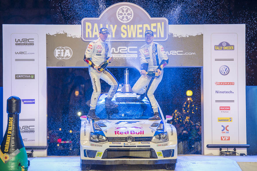 Rally Sweden 2014 Jari-Matti Latvala,Mikka Anttila,Motorsport,Podium,Rally,Rally Sweden,Rallye,Rallye Schweden,Siegerehrung,VW Polo R WRC,Volkswagen Motorsport,Volkswagen Polo R WRC